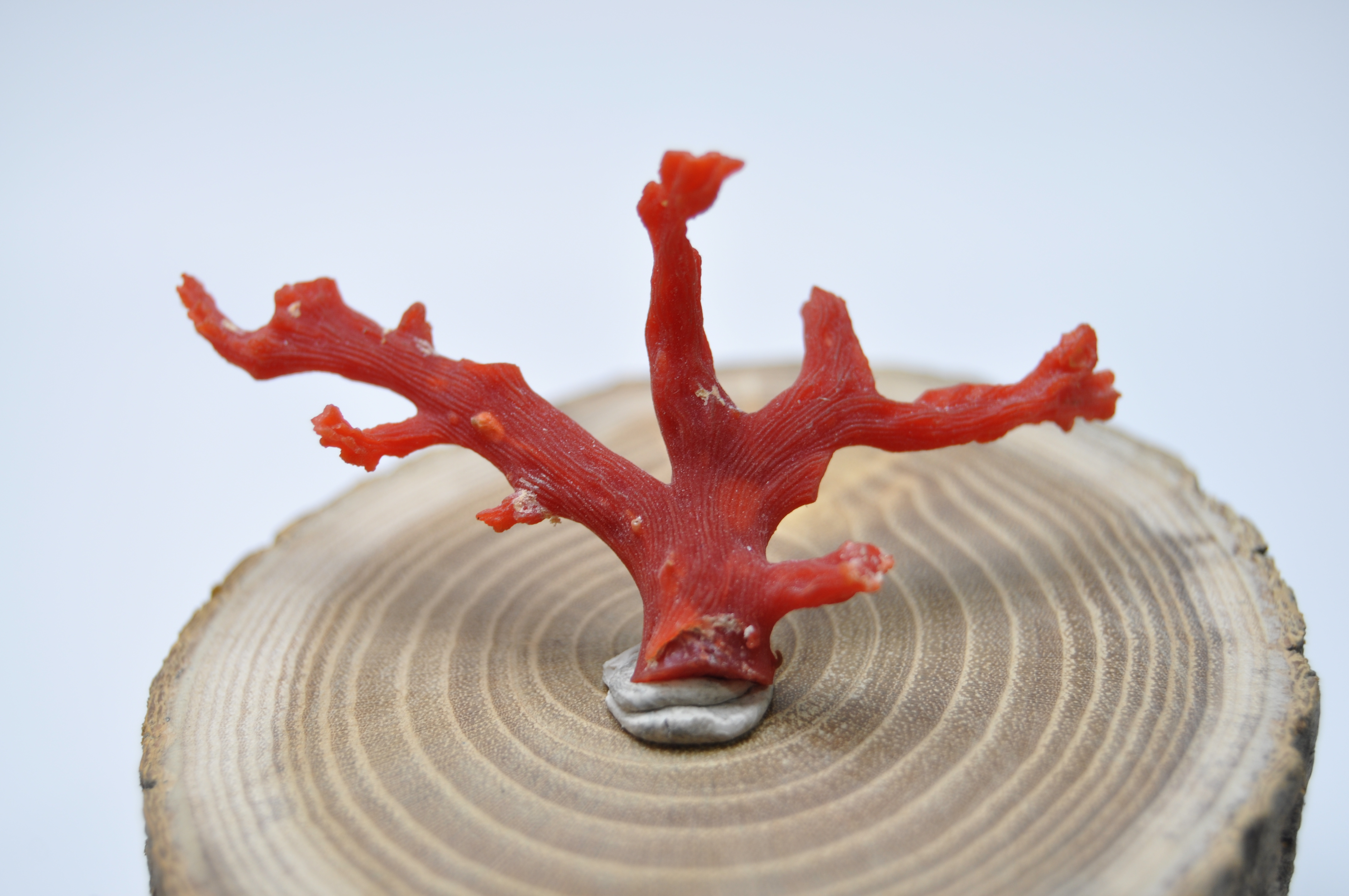 Coral natural red corallium rubrum